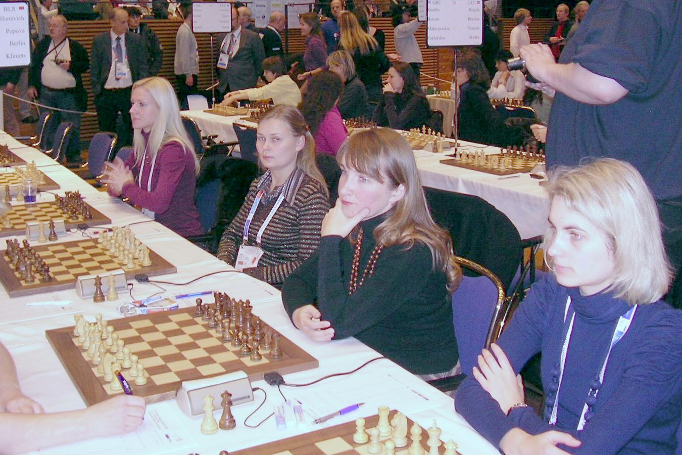 Belorussia: Sharevich, Popova, Berlin, Klimets at the Chess Olympiad 2008, Photographer Gerhard Hund.